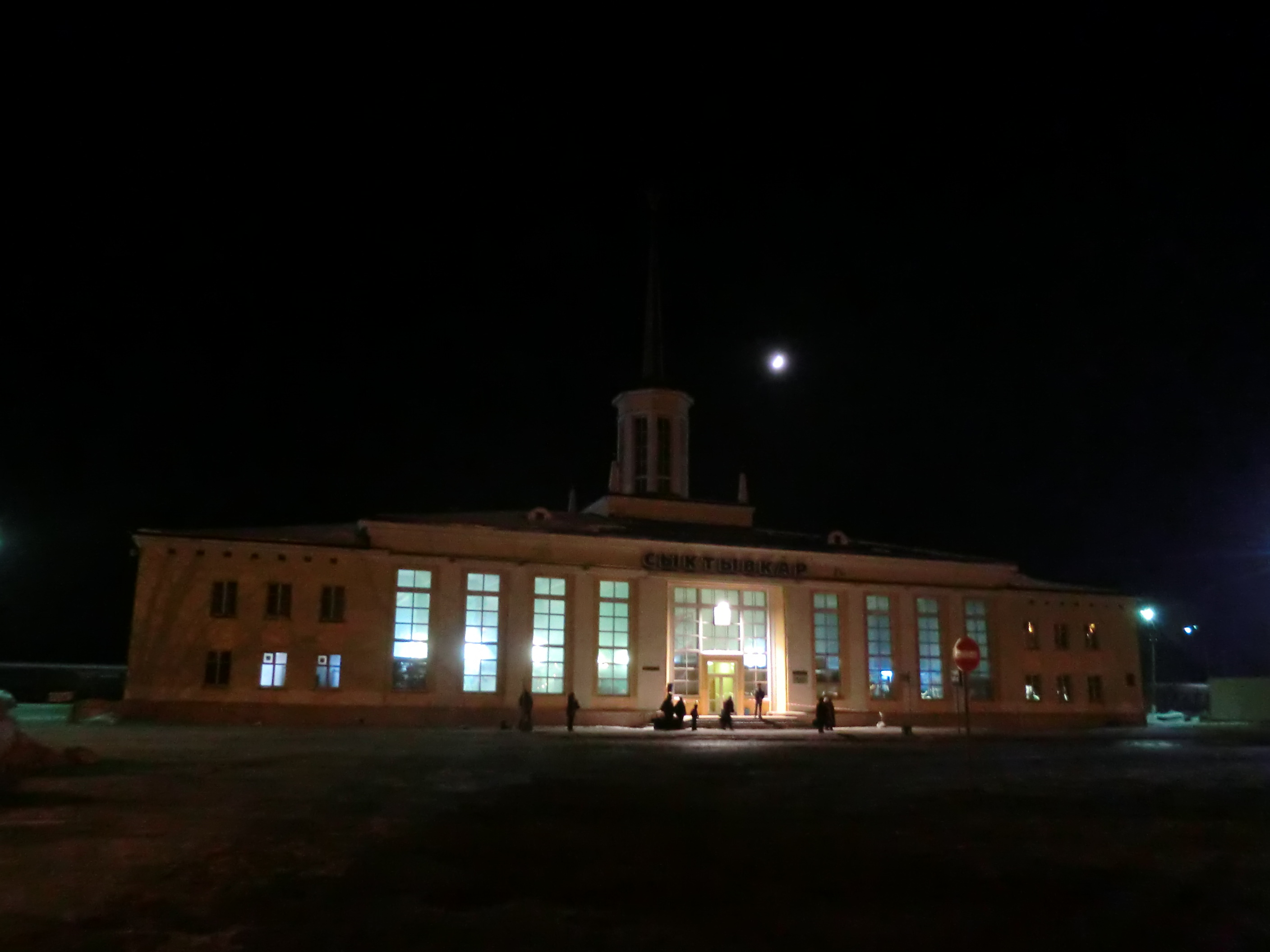 Syktyvkar railway station at 11:30 PM.